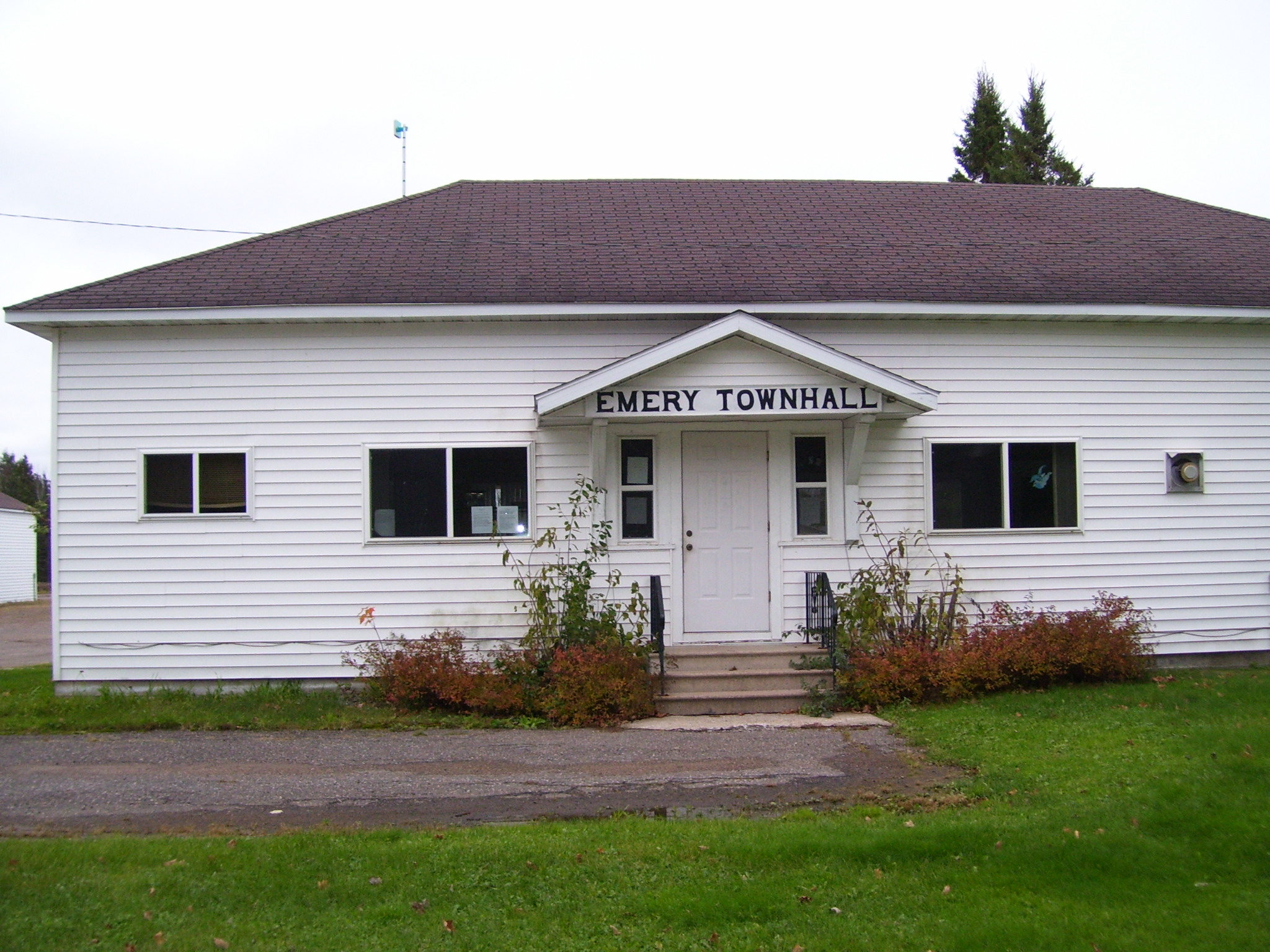 A photograph of the town hall of Emery, Wisconsin.